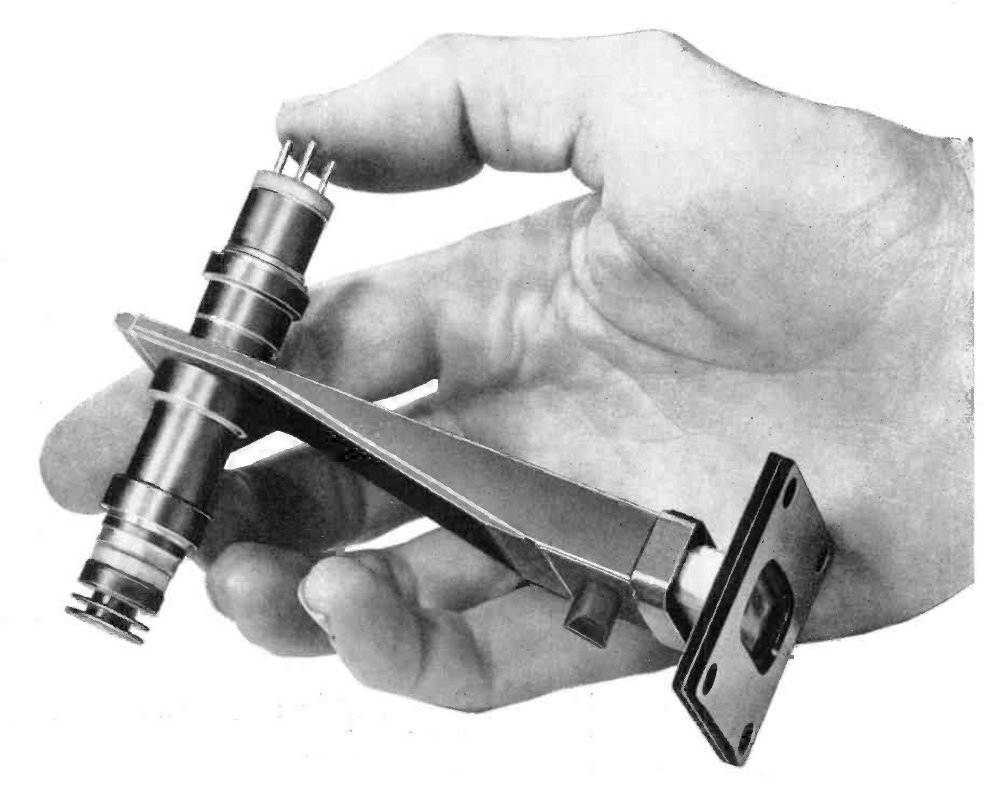 A miniature voltage-tunable O-type backward wave oscillator tube from 1956, manufactured by Varian Industries. The backward wave oscillator, invented in 1951 by Rudolf Klompfner, is a specialized linear-beam tube which generates microwaves. The accompanying ad copy says this tube can operate over an 8.2 - 12.4 GHz range with supply voltage of 300-600 V. The body is approximately 4 inches long. The magnet required for operation weighs less than 5 lbs. Alterations to image: Cropped out ad copy.